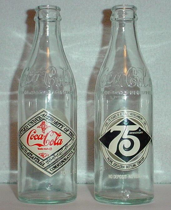 Commemorative Coca-Cola bottles